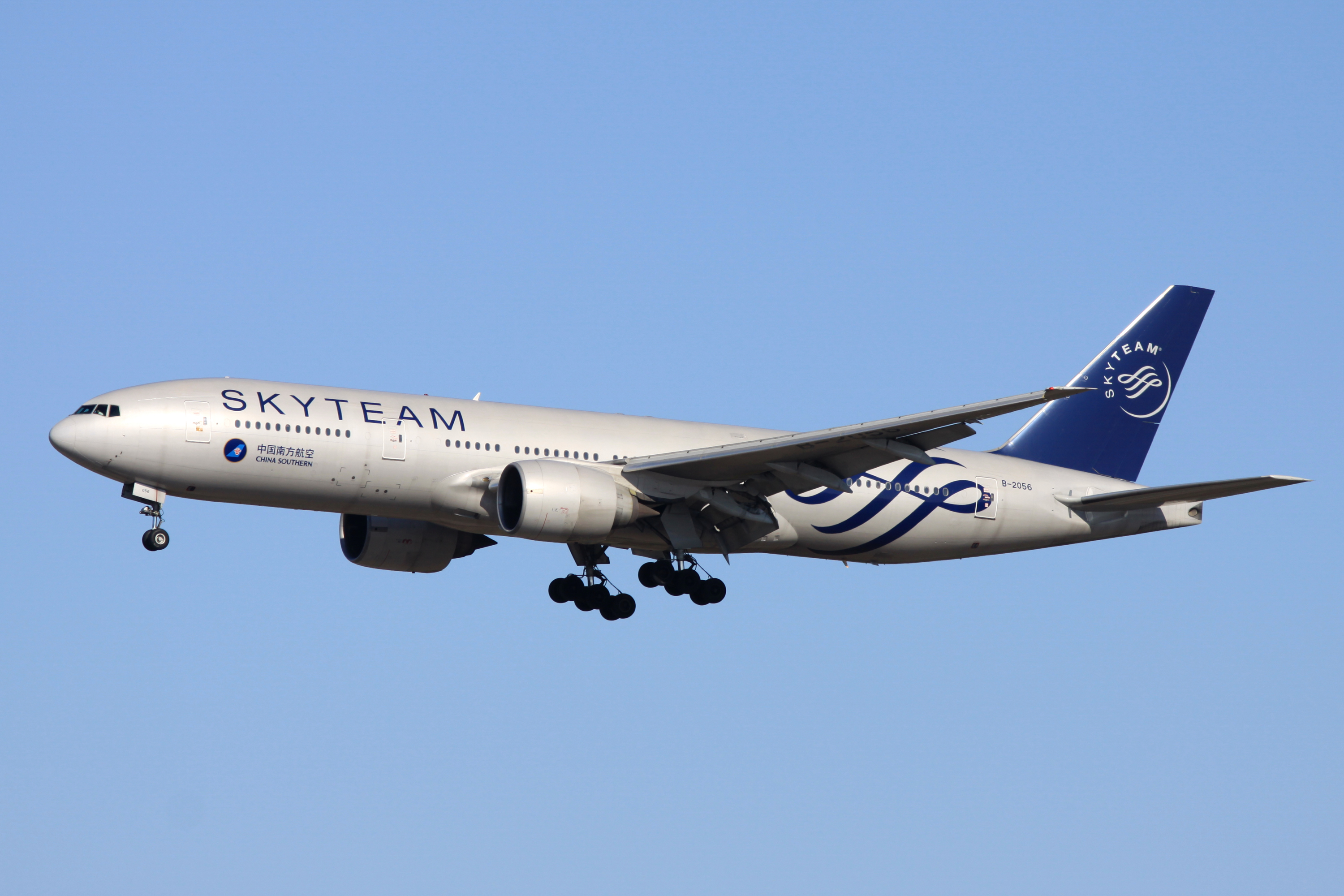 Final Approach to Runway 34R, Narita International Airport, Boeing 777-21B/ER, c/n:27525, China Southern Airlines, SKYTEAM c/s